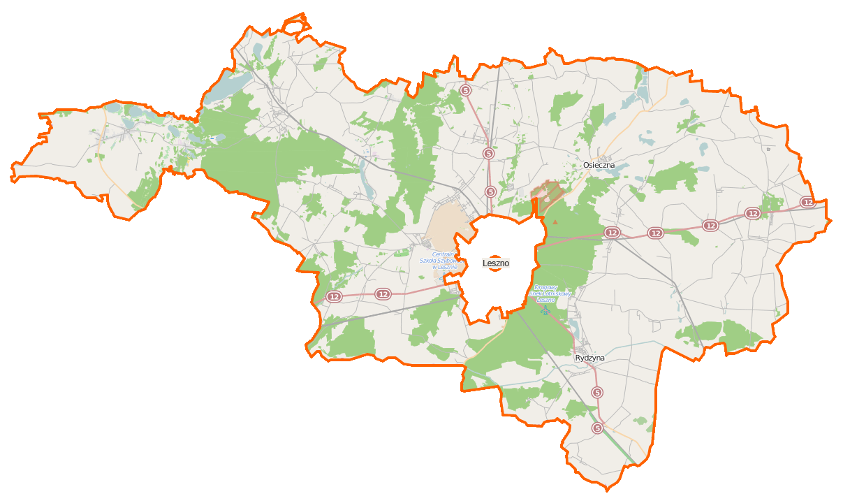 Map of Powiat leszczyński, Poland This map of Powiat leszczyński was created from OpenStreetMap project data, collected by the community. This map may be incomplete, and may contain errors. Don't rely solely on it for navigation. Border coordinates52.003016.0881←↕→16.916051.6994